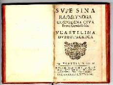 A cover of the 1622 edition of the work, see Tears of the Prodigal Son